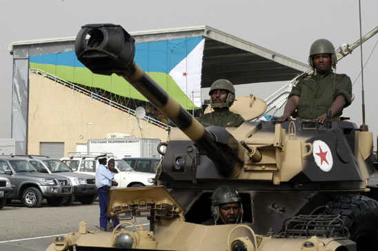 Djiboutian soldiers pass along their Independence Day parade route in a Panhard AML tank in Djibouti on June 27, 2003